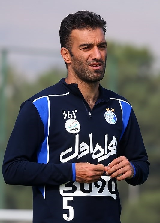 Hanif Omranzadeh